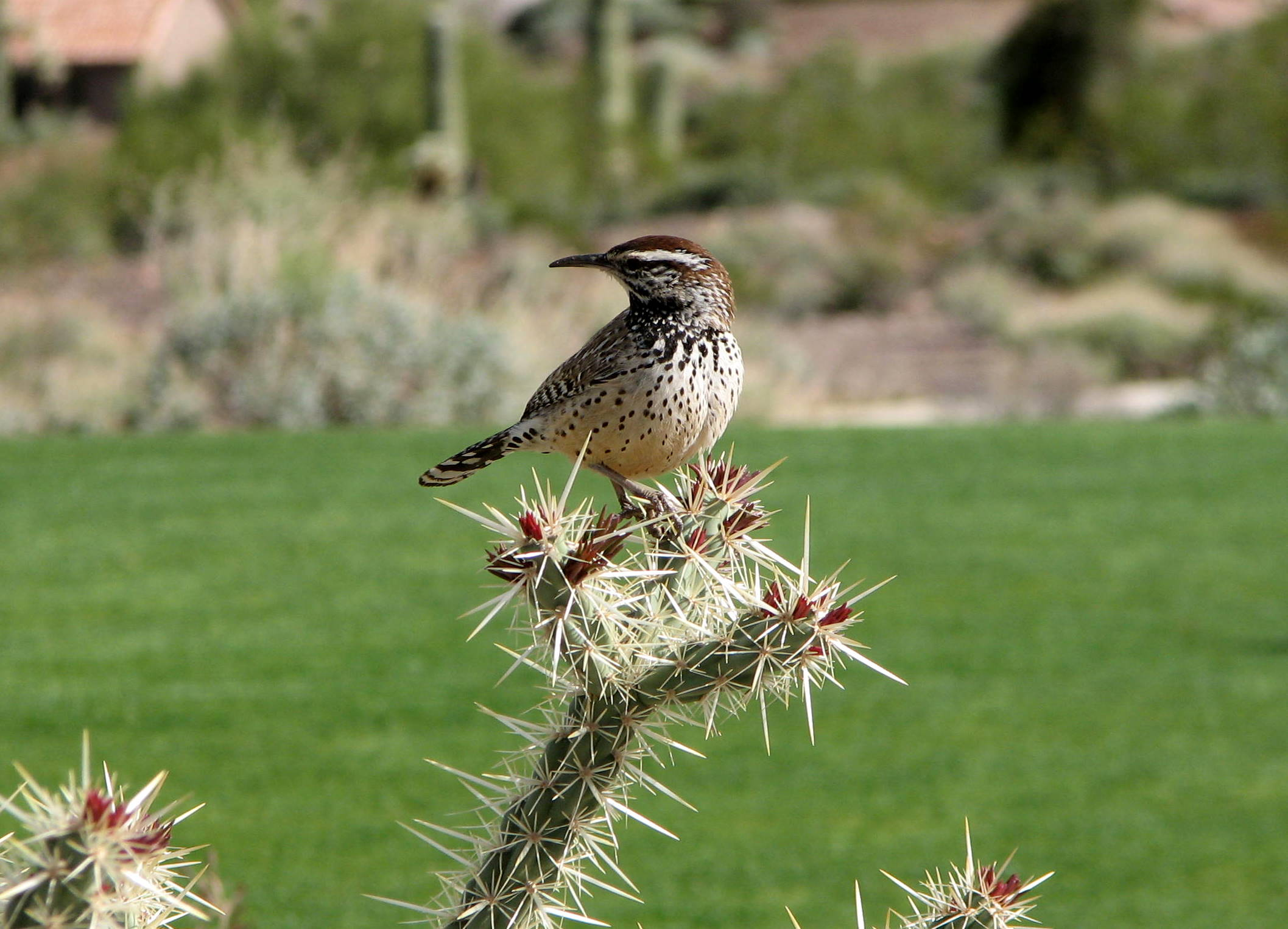 Cactus Wren (Campylorhynchus brunneicapillus), picture taken at Gold Canyon Golf Resort, Arizona, USA